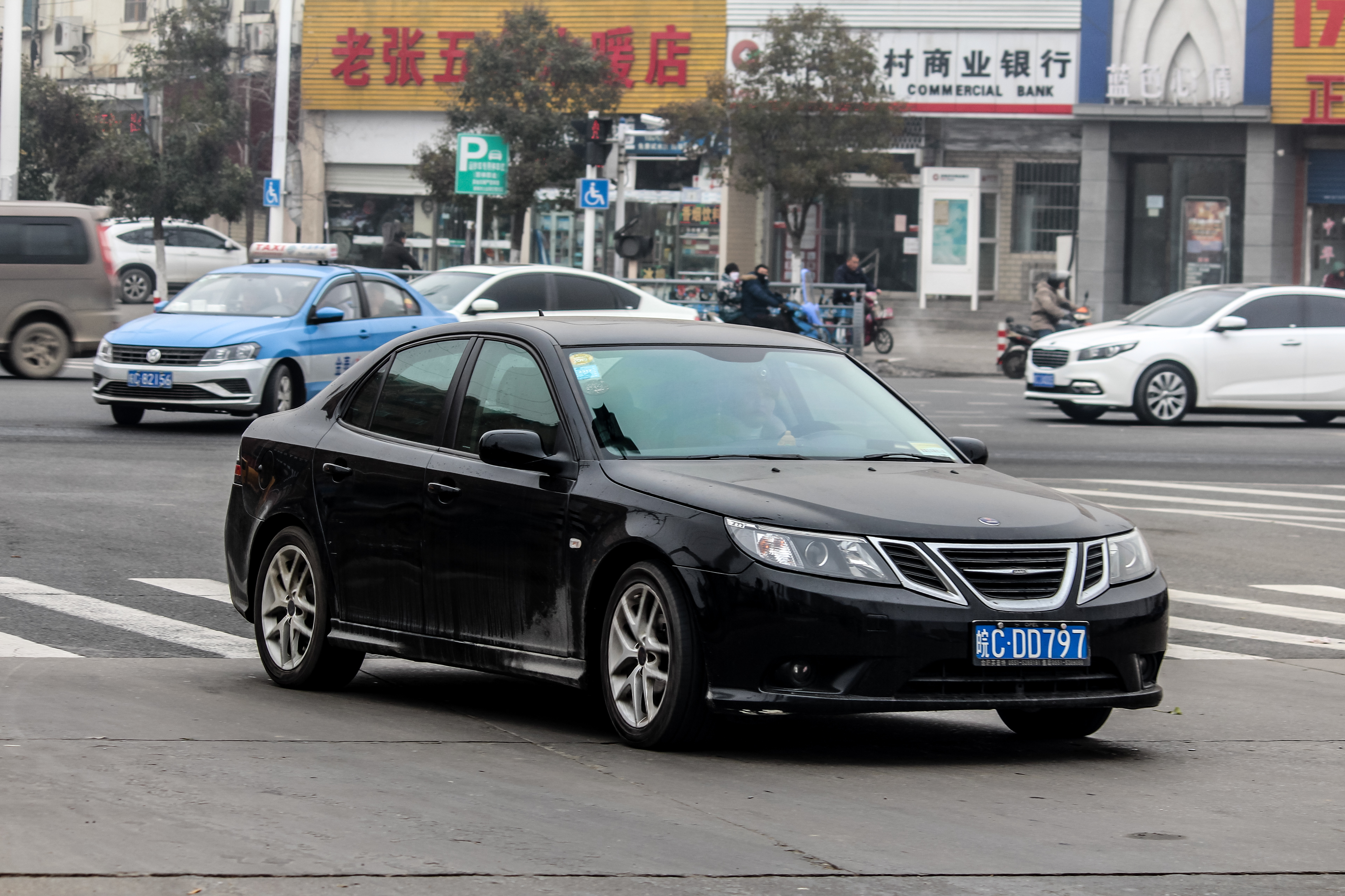 SAAB 9-3 2.0T in Bengbu Anhui China